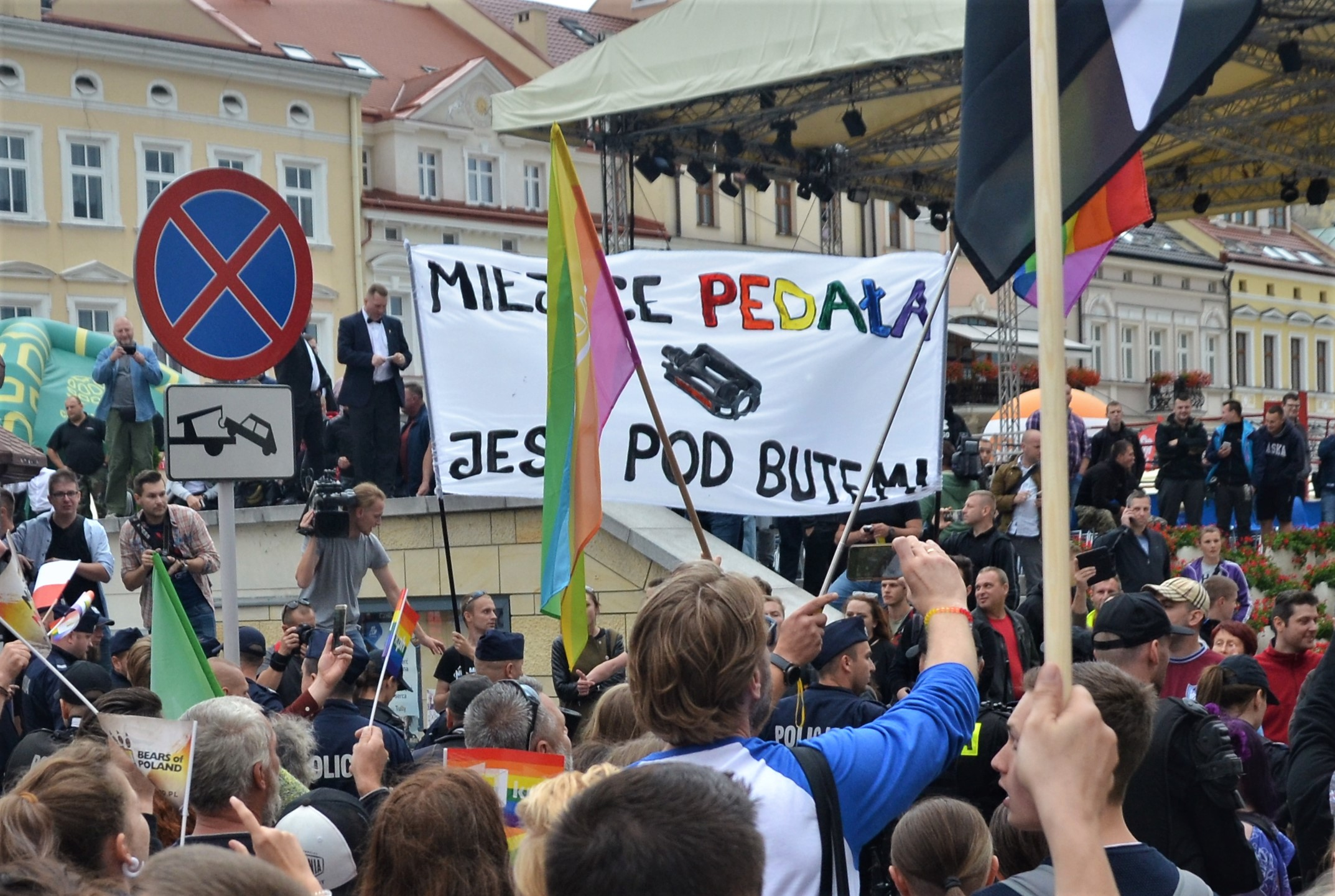 MW-Protesters chant Nazi slogan in Rzeszów: fag's place is under the boot!